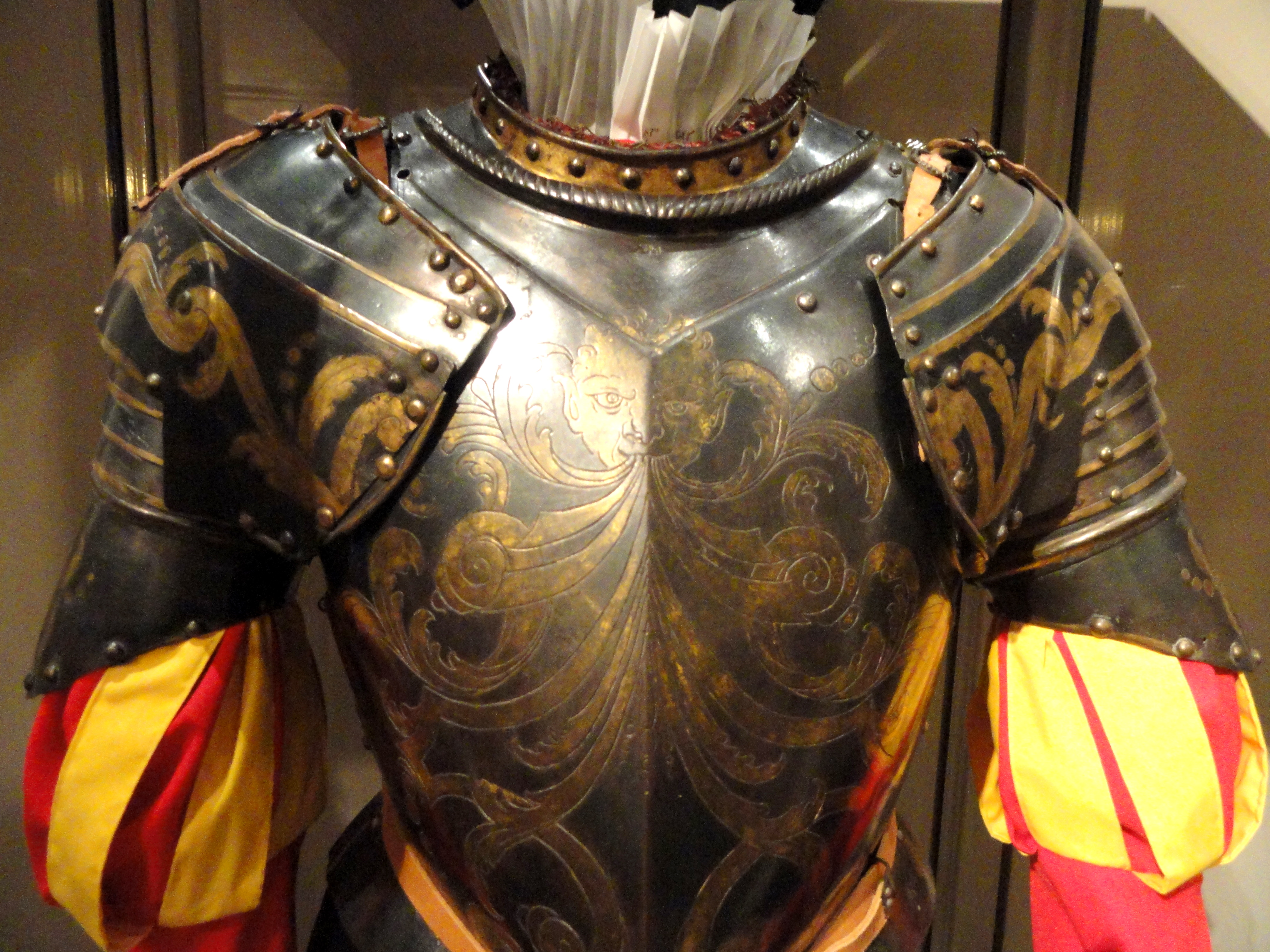 Exhibit in the Higgins Armory Museum, 100 Barber Avenue, Worcester, Massachusetts, USA. The museum permitted photography without any restriction, both in writing and when I asked verbally.